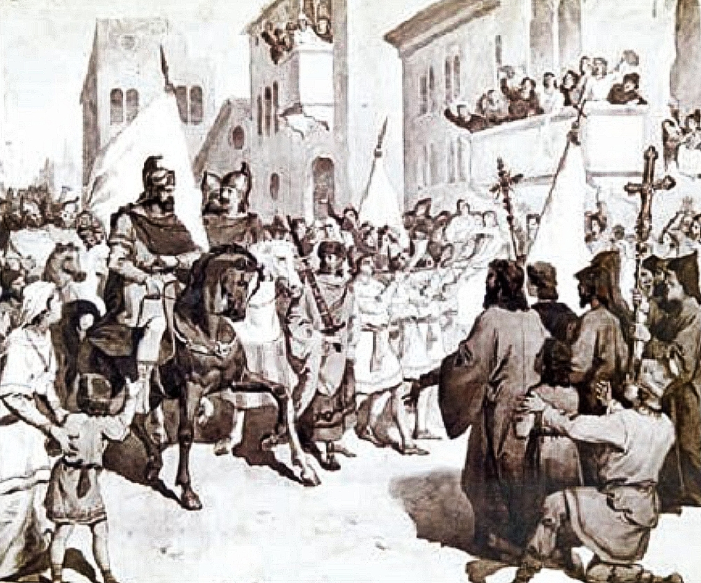 JULIAN ZASSO (1833-1889). THE RETURN OF COMMANDER VAHAN MAMIKONEAN AND ARMENIAN NOBLES TO THE HOMELAND.